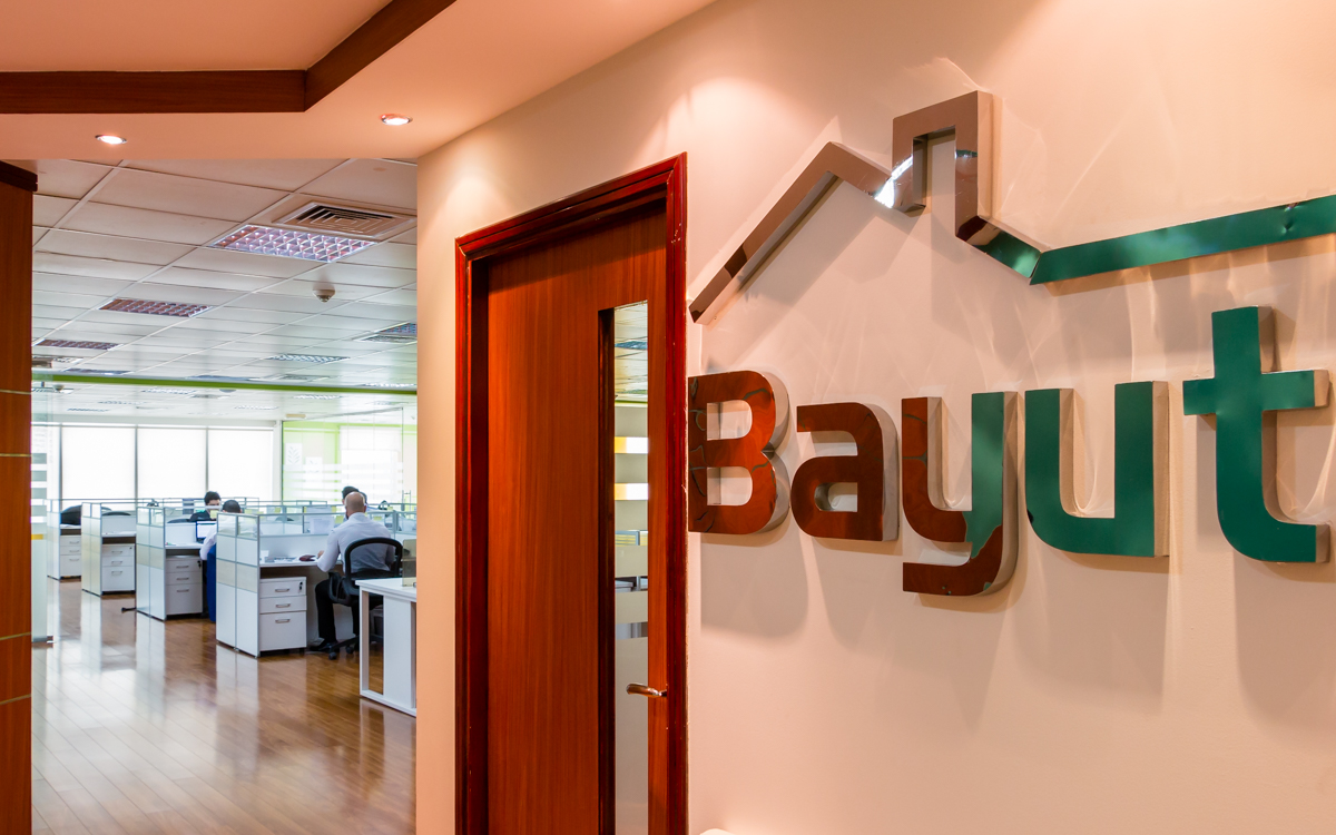 Office in Dubai